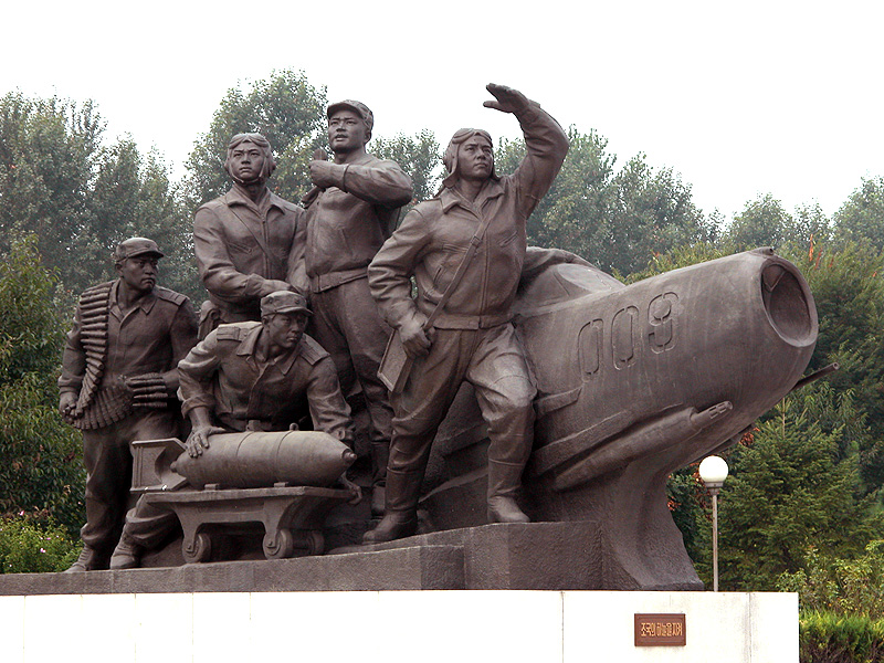 Victorious Fatherland Liberation War Museum, Pyongyang (조국해방전쟁승리기념탑 중 군상 조국의 하늘을 지켜)